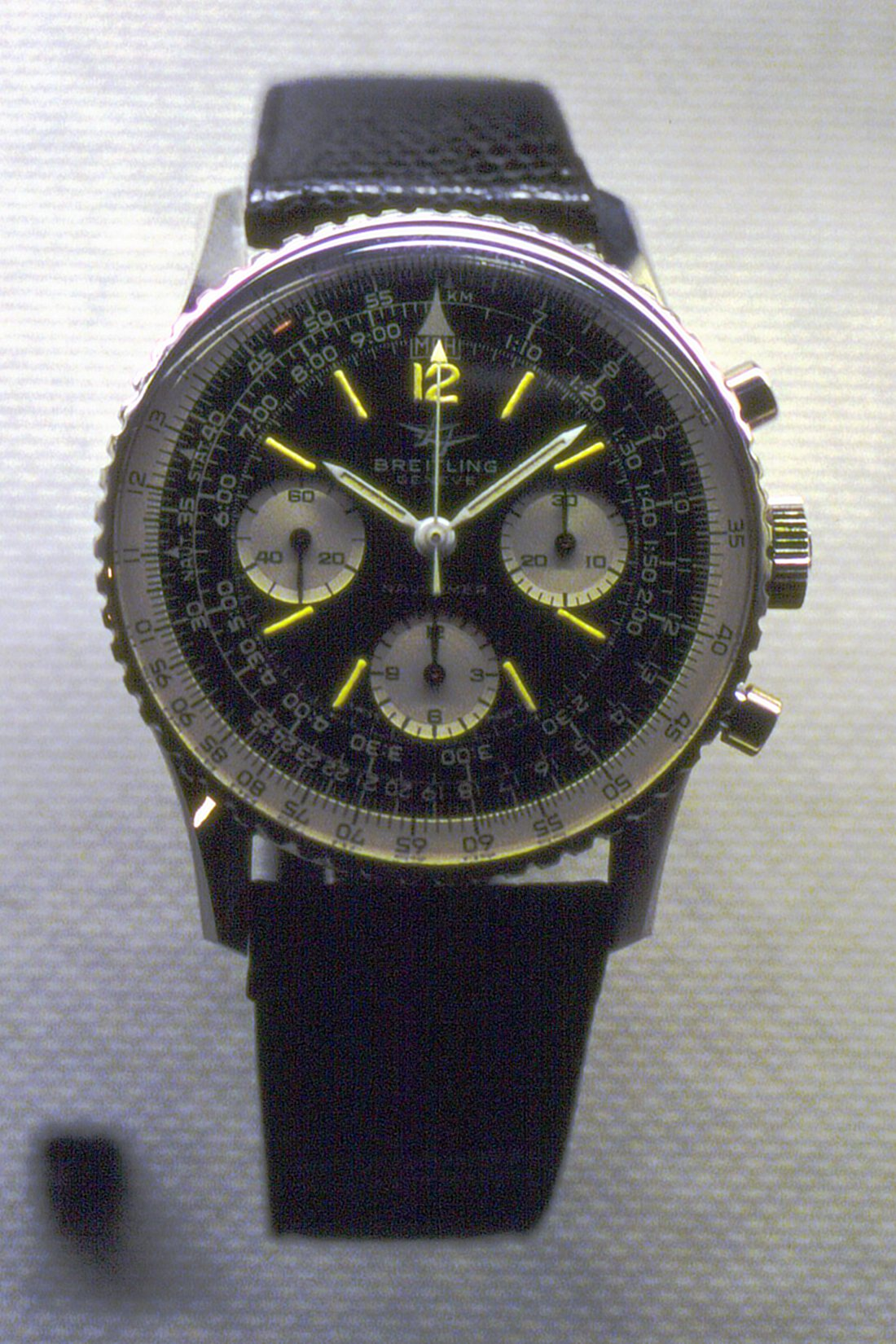 Musée International d'Horlogerie, La Chaux-De-Fonds, Switzerland.